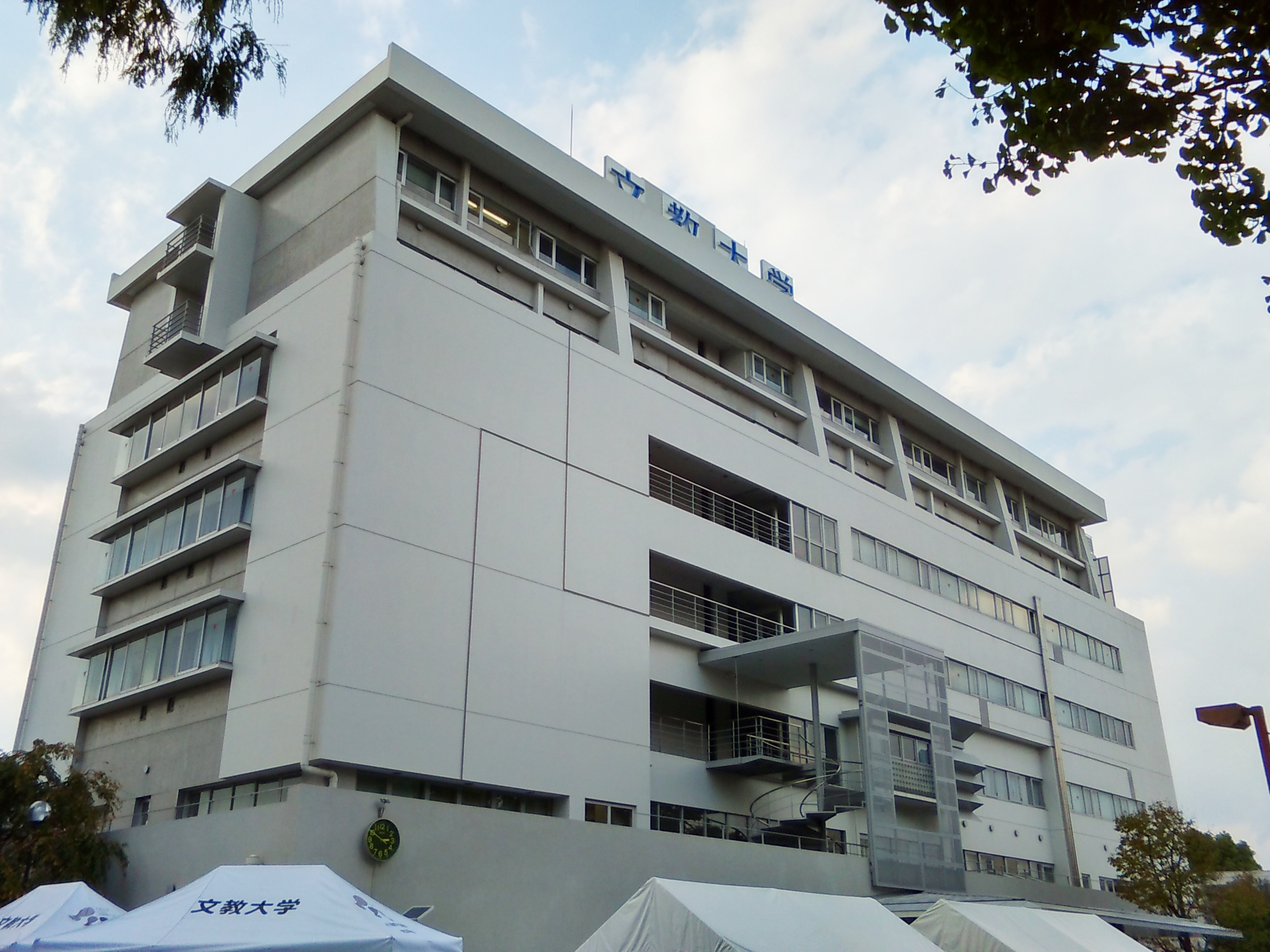 Building #3 (administration office) at Koshigaya Campus, Bunkyo University, in Koshigaya, Saitama, Japan.